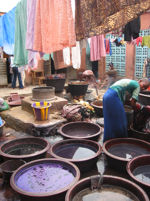 Dyeing bezin, one of several types of cloth made in Mali. You can custom-order bezin with the colors and the motifs that you want.